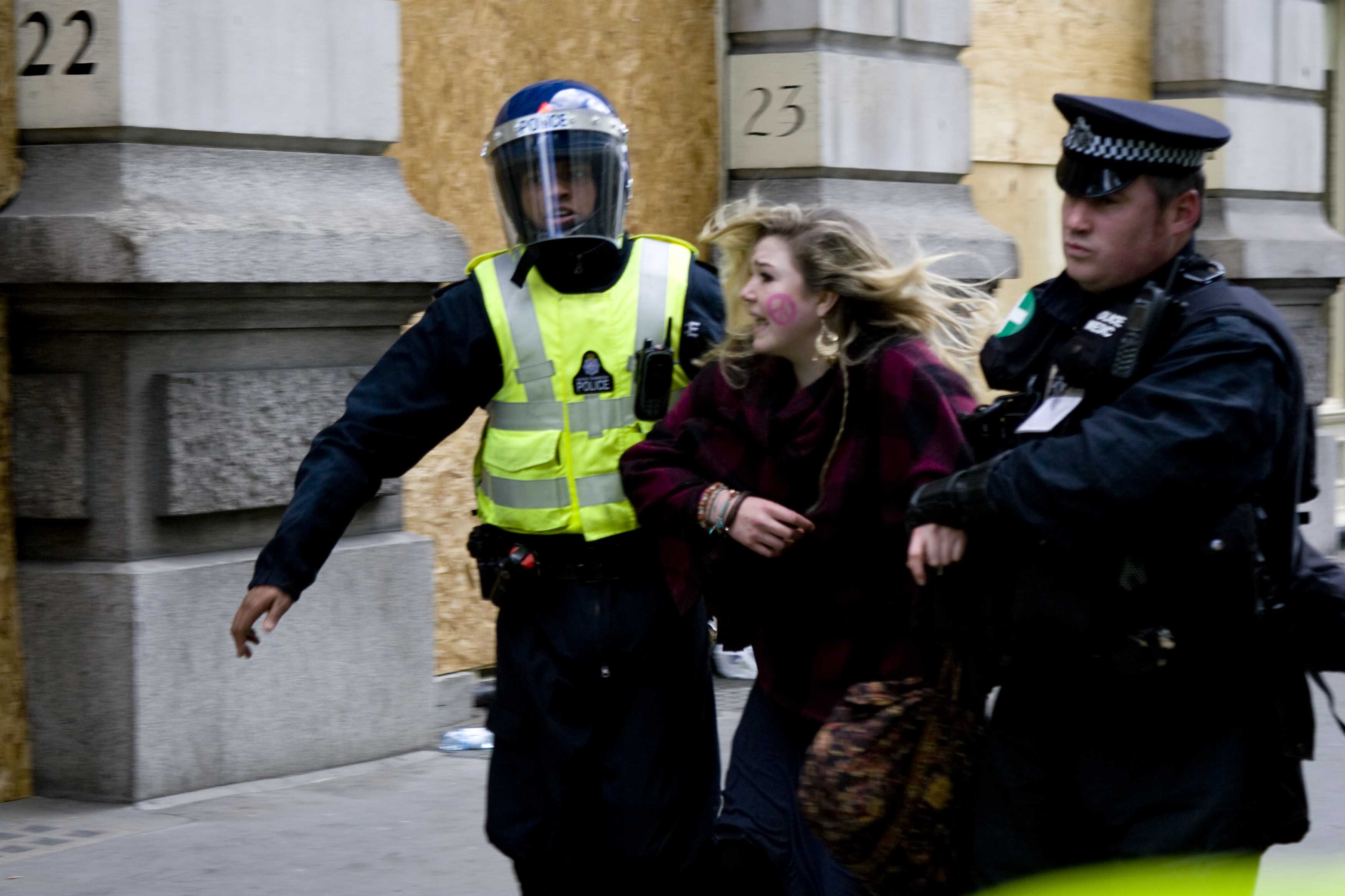 A young female protester being detained by riot police at the G20 Meltdown protest in London on 1 April 2009